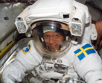 Christer Fuglesang